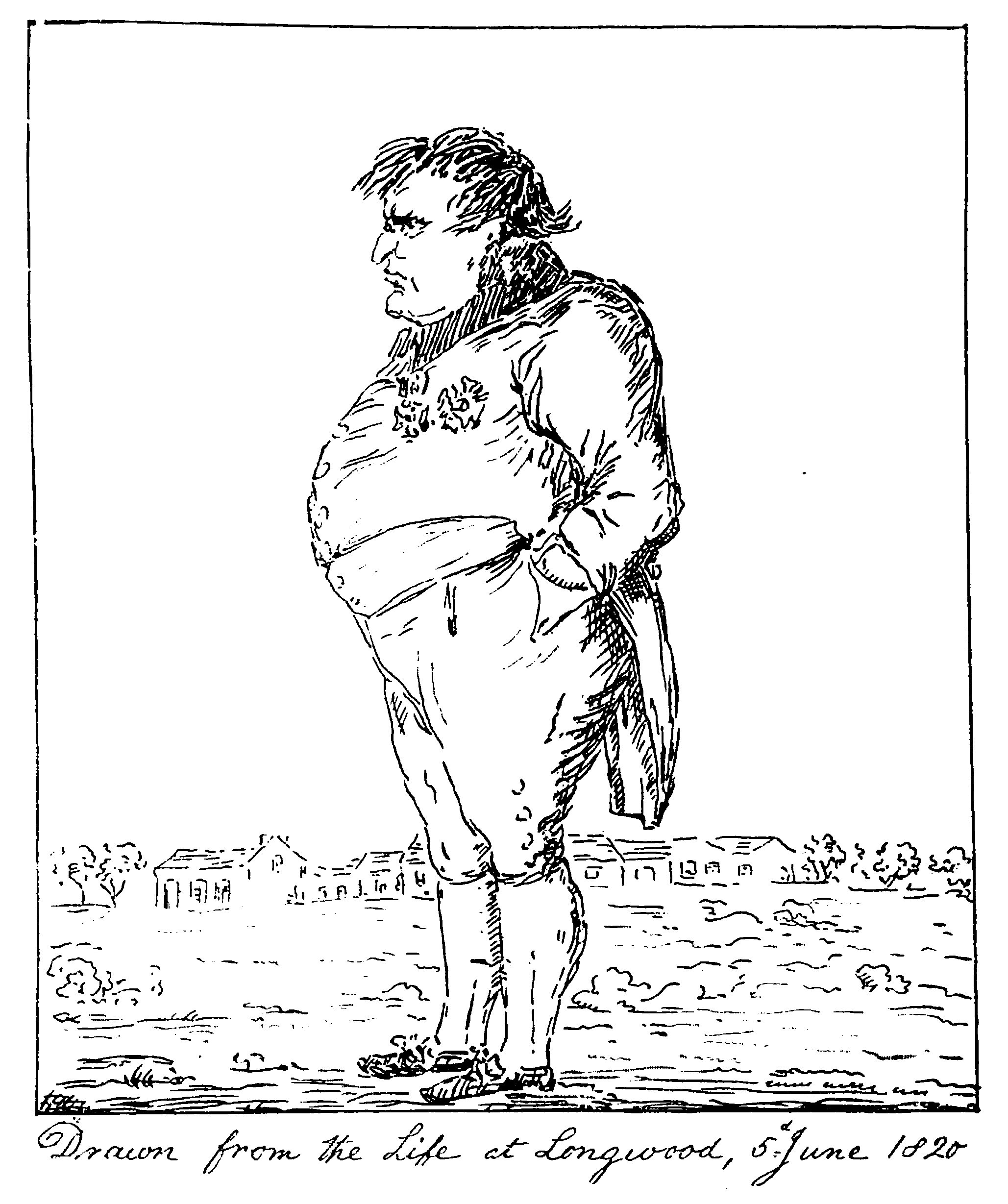 Anonymous. Napoleon's portrait from life, executed at Longwood 1820, june, 5.